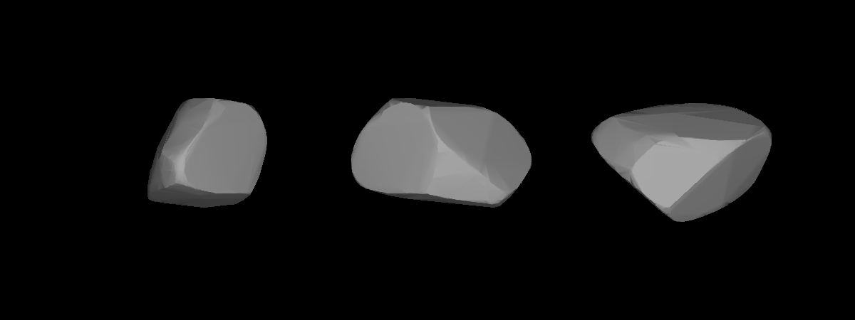 A three-dimensional model of 1805 Dirikis that was computed using light curve inversion techniques.